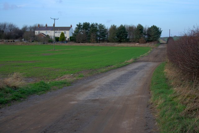 Kilton Thorpe, a hamlet in North Yorkshire